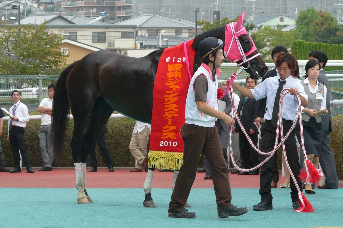 Koei-Try20100920